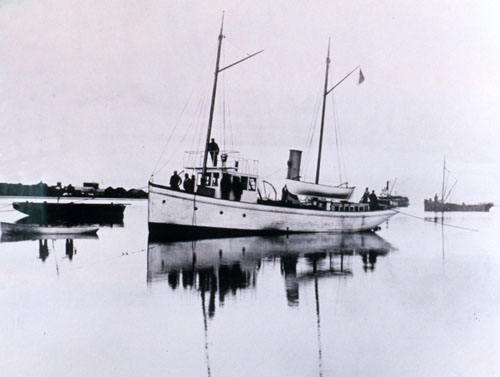 United States Coast and Geodetic Survey survey ship USC&GS Yukon of 1898-1923. The vessel was launched August 20, 1898 at St. Michael, Alaska after assembly of components shipped by way of Seattle from New York.